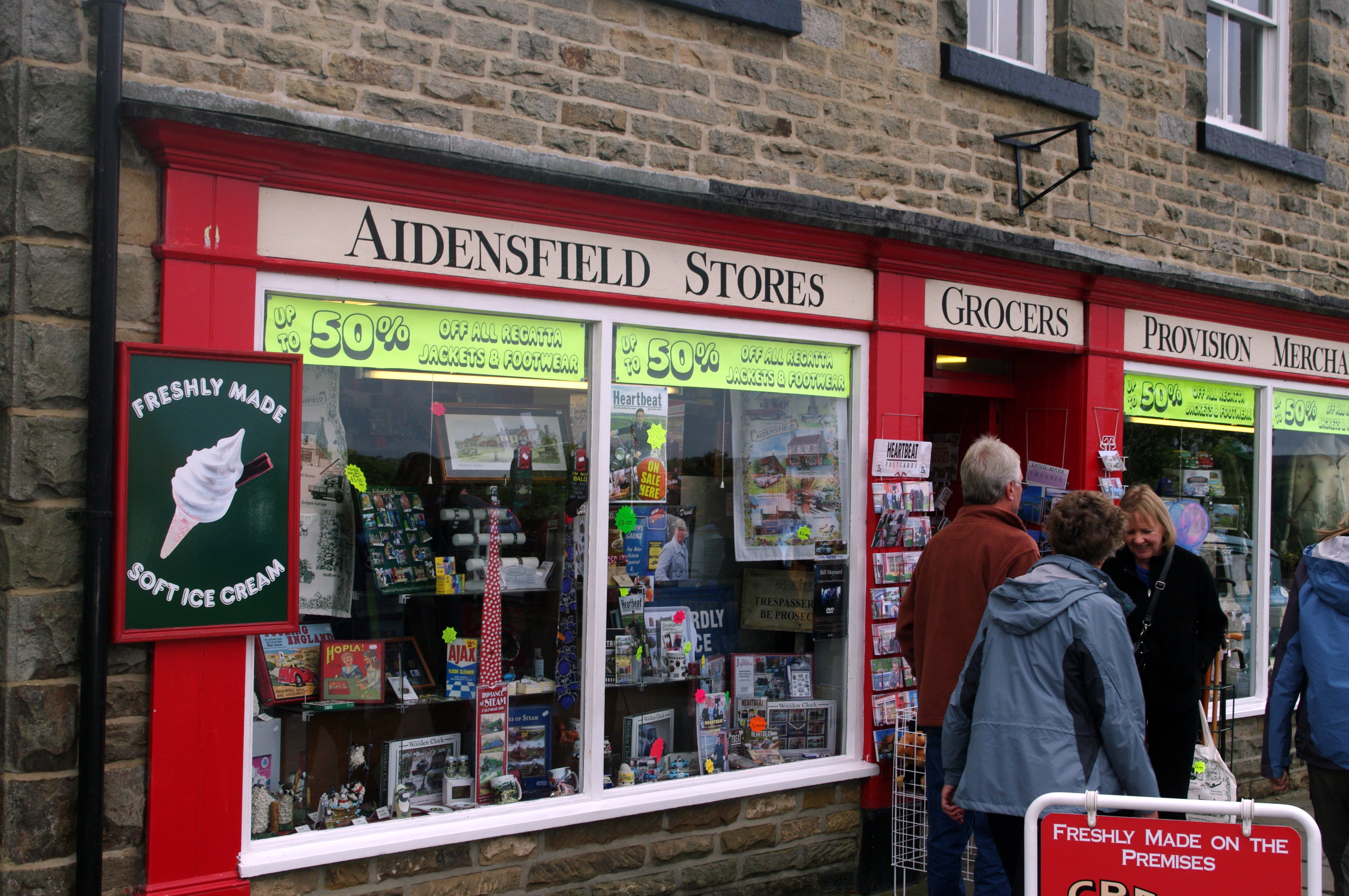 "Aidensfield"-Store as seen on Heartbeat on ITV in Goathland, North Yorkshire